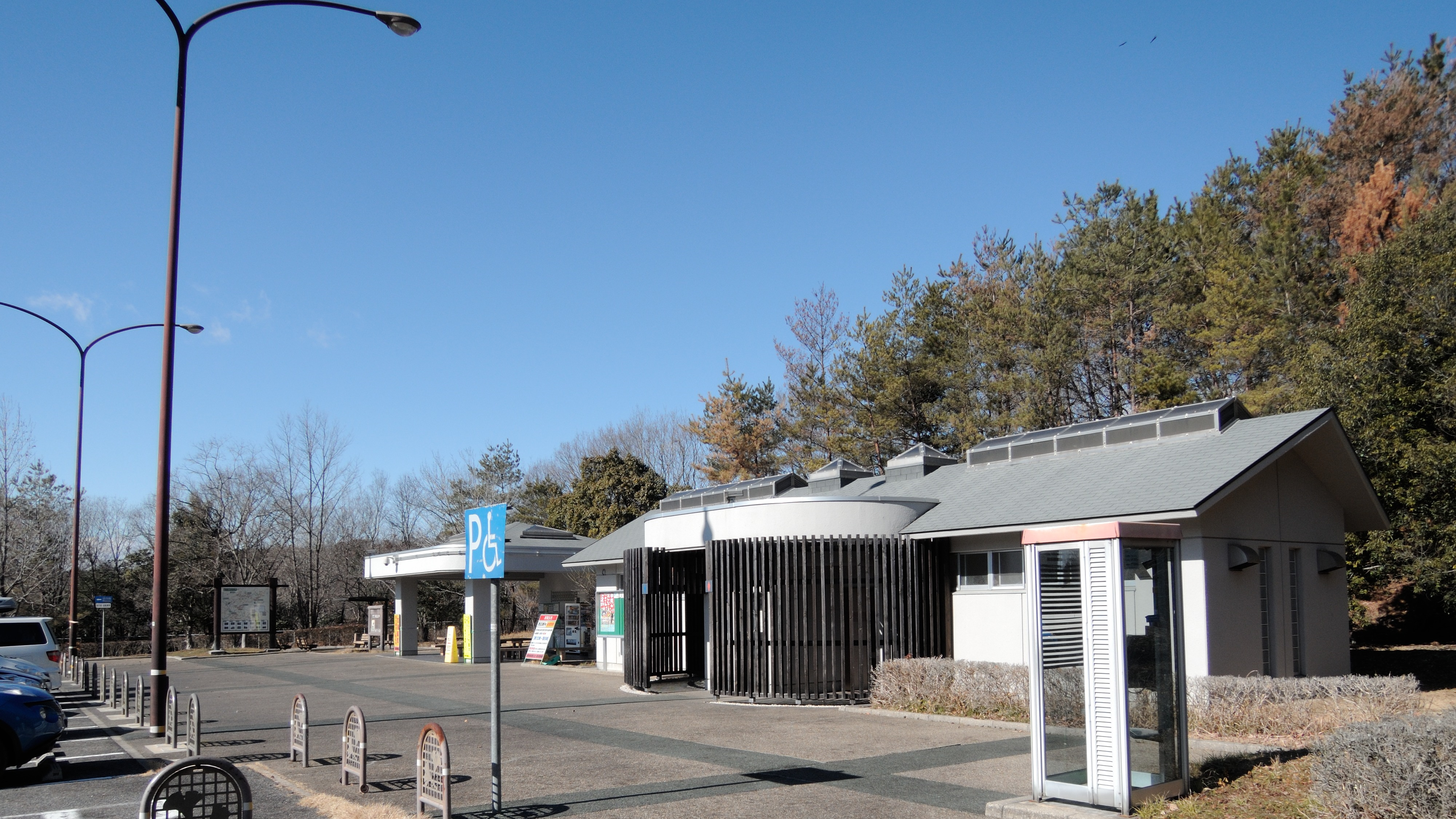 Nishihirose Paking Area ,Aichi prefecture,Japan